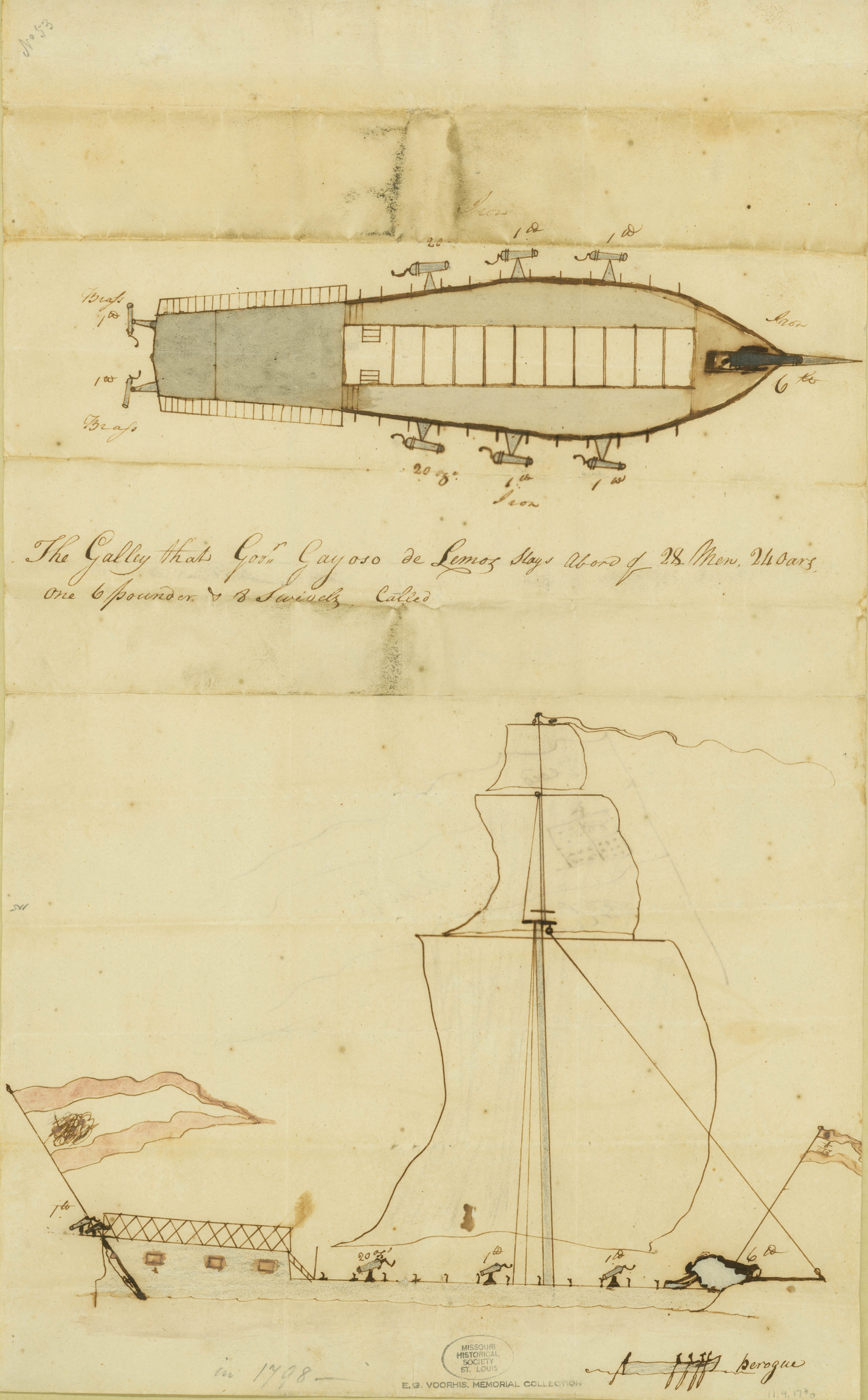 Caption by Clark reads, "The Galley that Gov. Gayoso de Lemos stays abord of 28 Men, 24 Oars, one 6 pounder…"Title: Pen and ink sketch of the galley of Governor Gayoso de Lemos by William Clark, October 1795